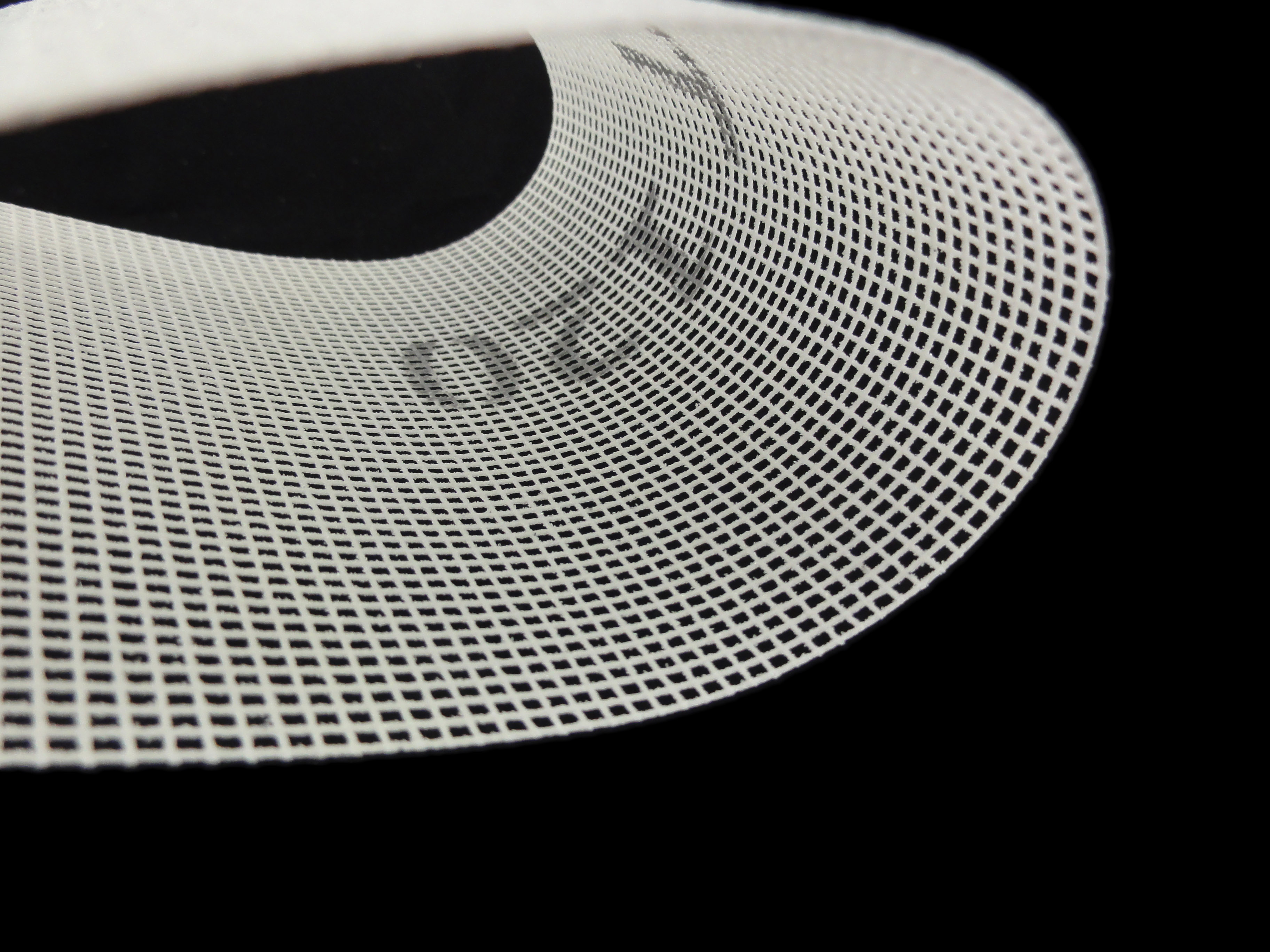 Abrasive mesh - abrasive tool used for sanding "dusty" materials such as soft wood and plaster.